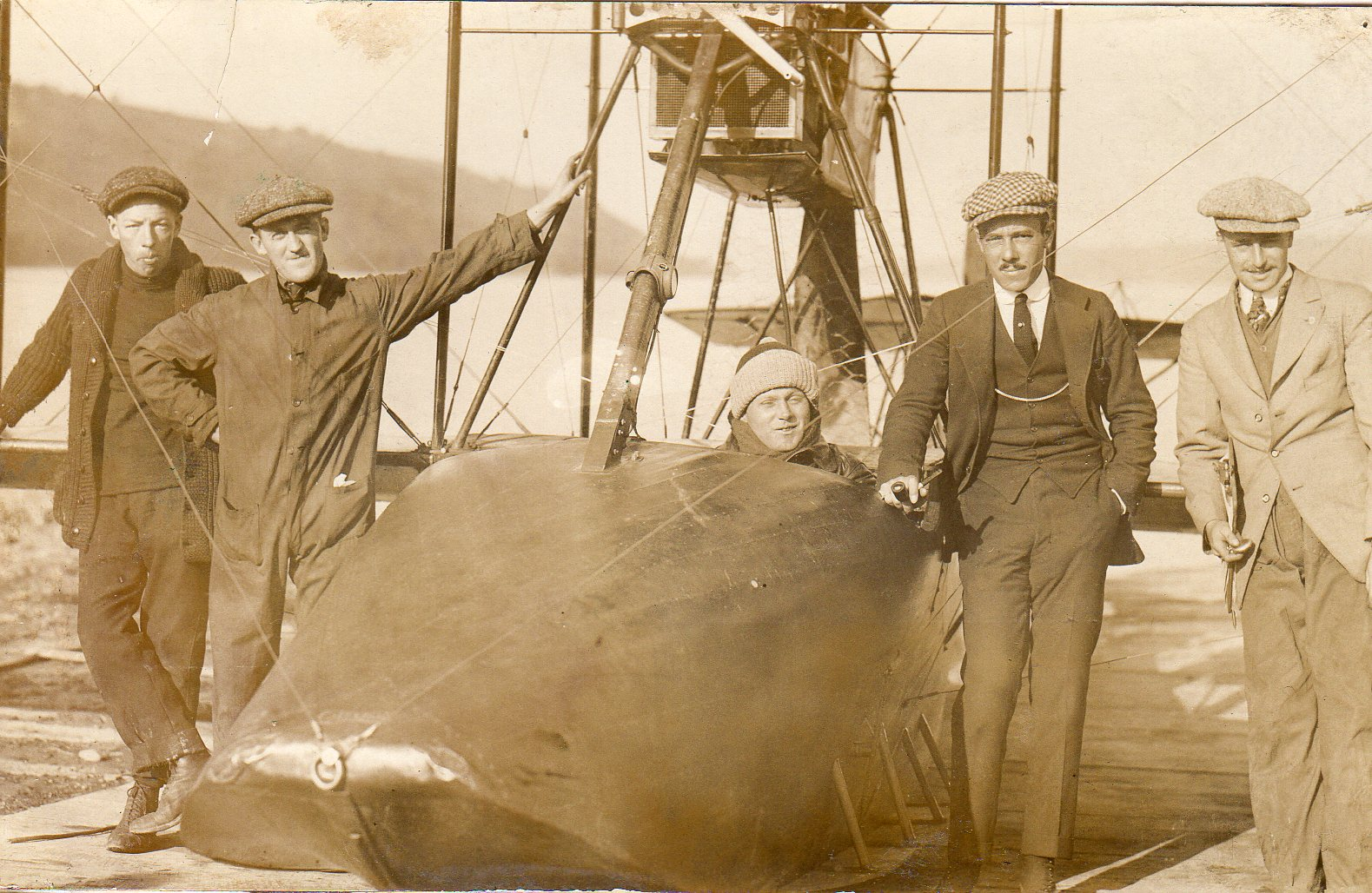 Photo of David Hugh McCulloch in Curtiss Model F Flying Boat - F. C. G. Eden on far right Appeared in Aerial Age Weekly Oct 25, 1915 Page 129